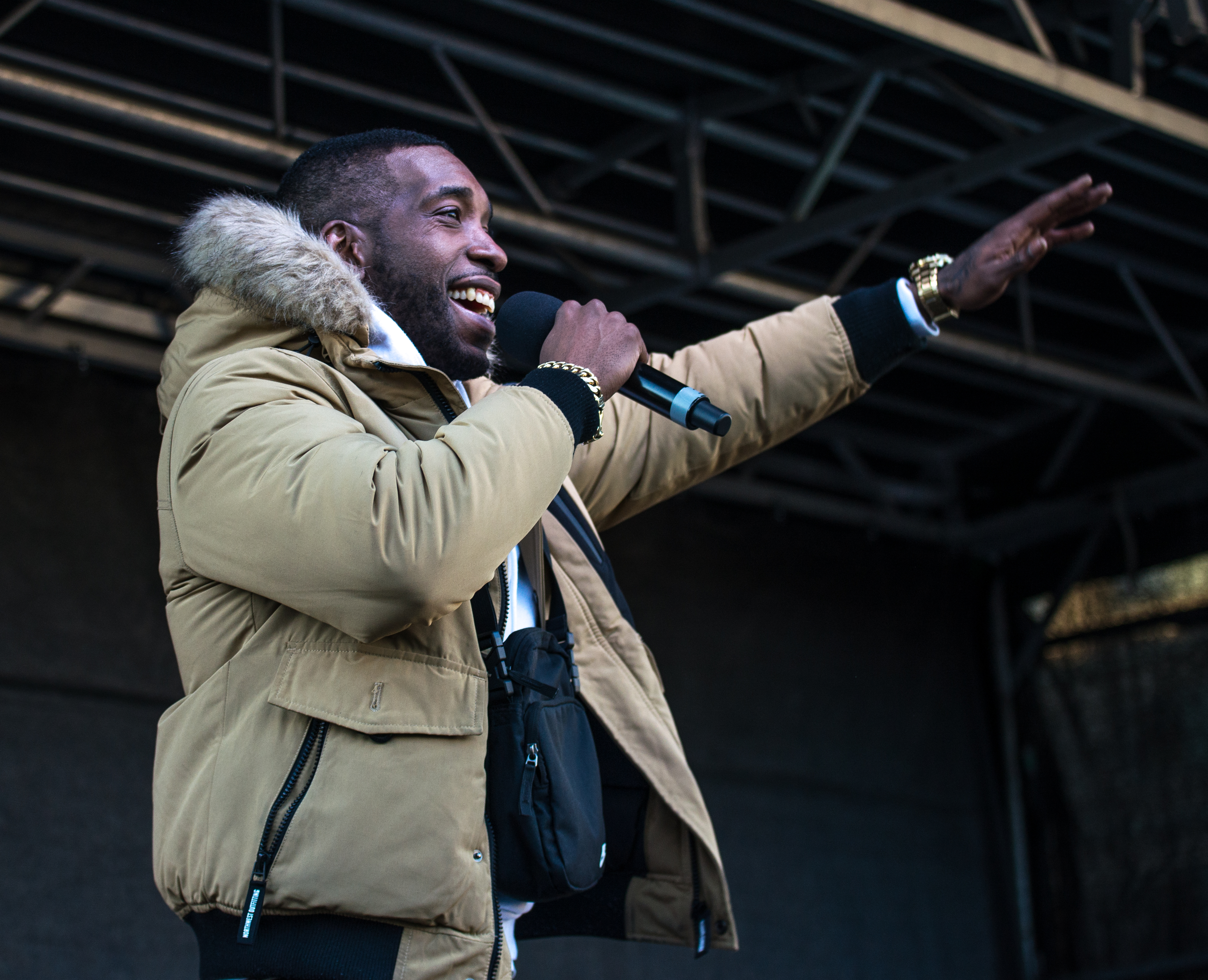 Fridays For Future in Stockholm in February 2020